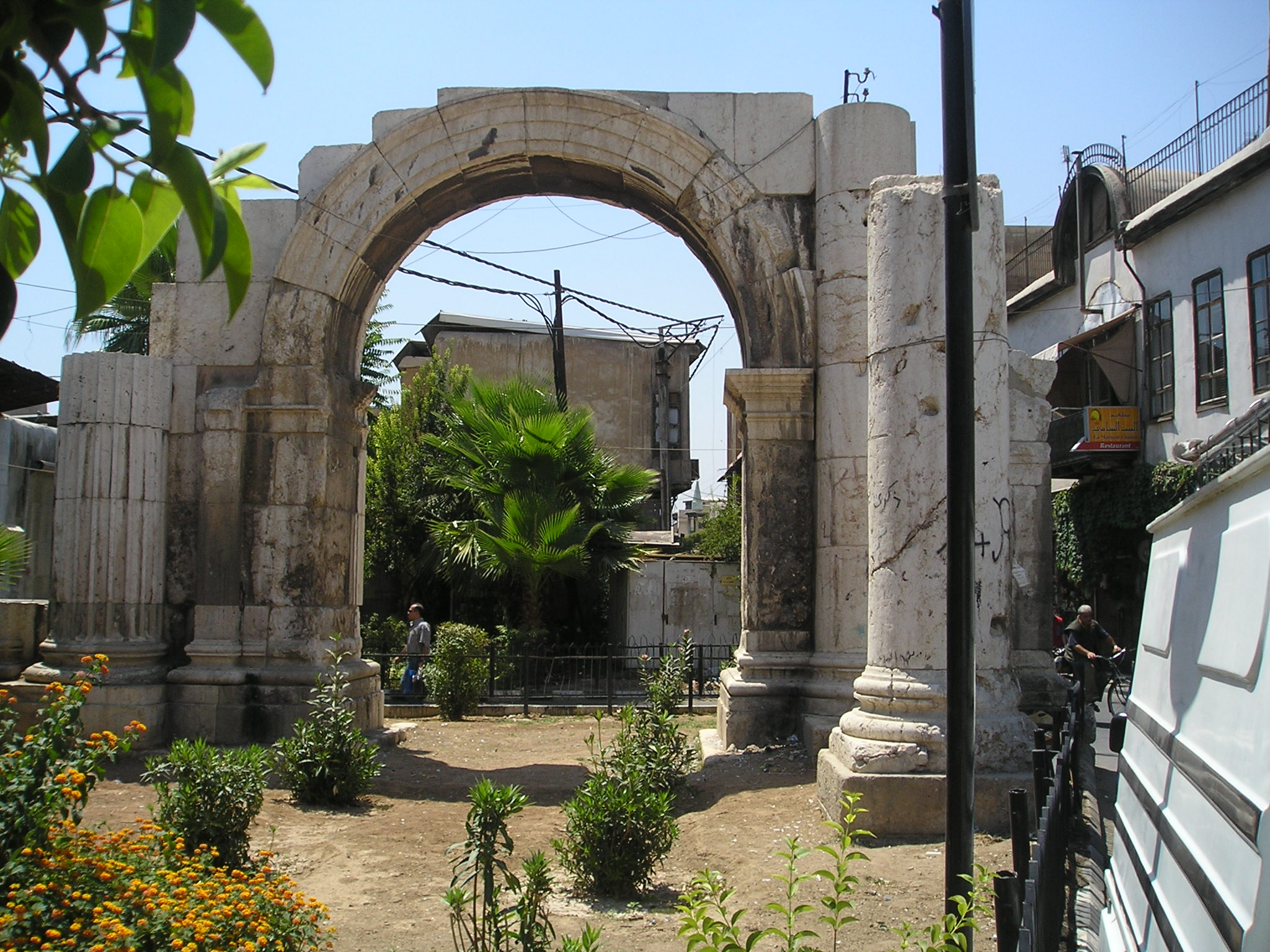 Damascus, Syria - a Roman arch at the Viae Recta, dividing Muslim and Christian part of the old city